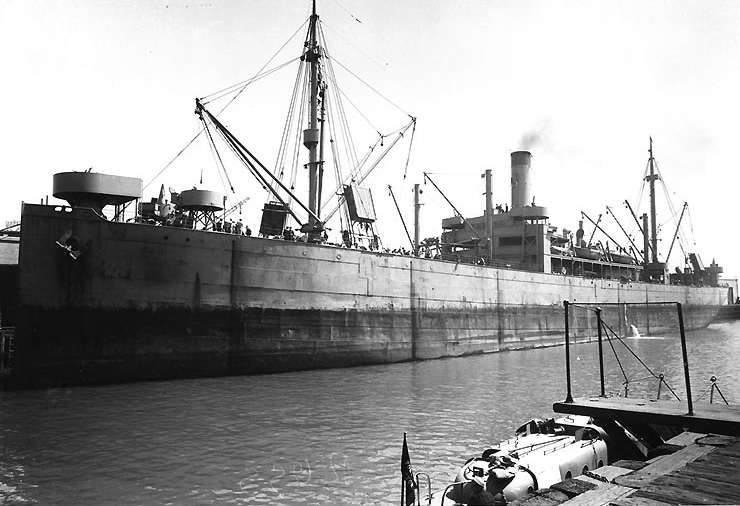 SS Zyrianin (Soviet Freighter, 1910) At San Francisco, California, during World War II, possibly circa 19 August 1943. Originally the American merchantman Dakotan (1910-1942), this ship was USS Dakotan (ID #3882) in 1919. She was transferred to the U.S.S.R. in 1942 and was listed in "Lloyd's Register" until the 1970-1971 edition. U.S. Naval Historical Center Photograph.